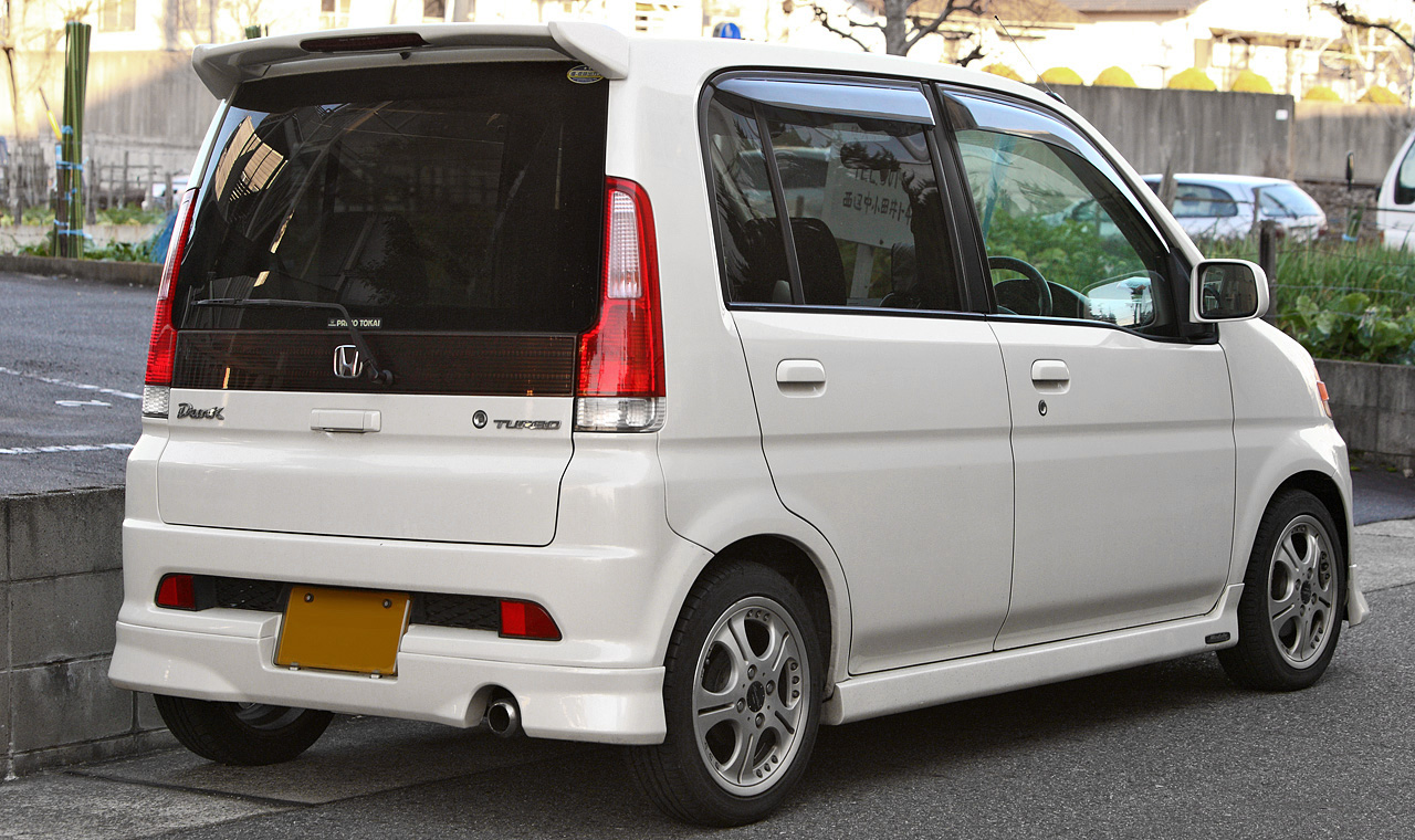 Honda Life Dunk ( JB3 )